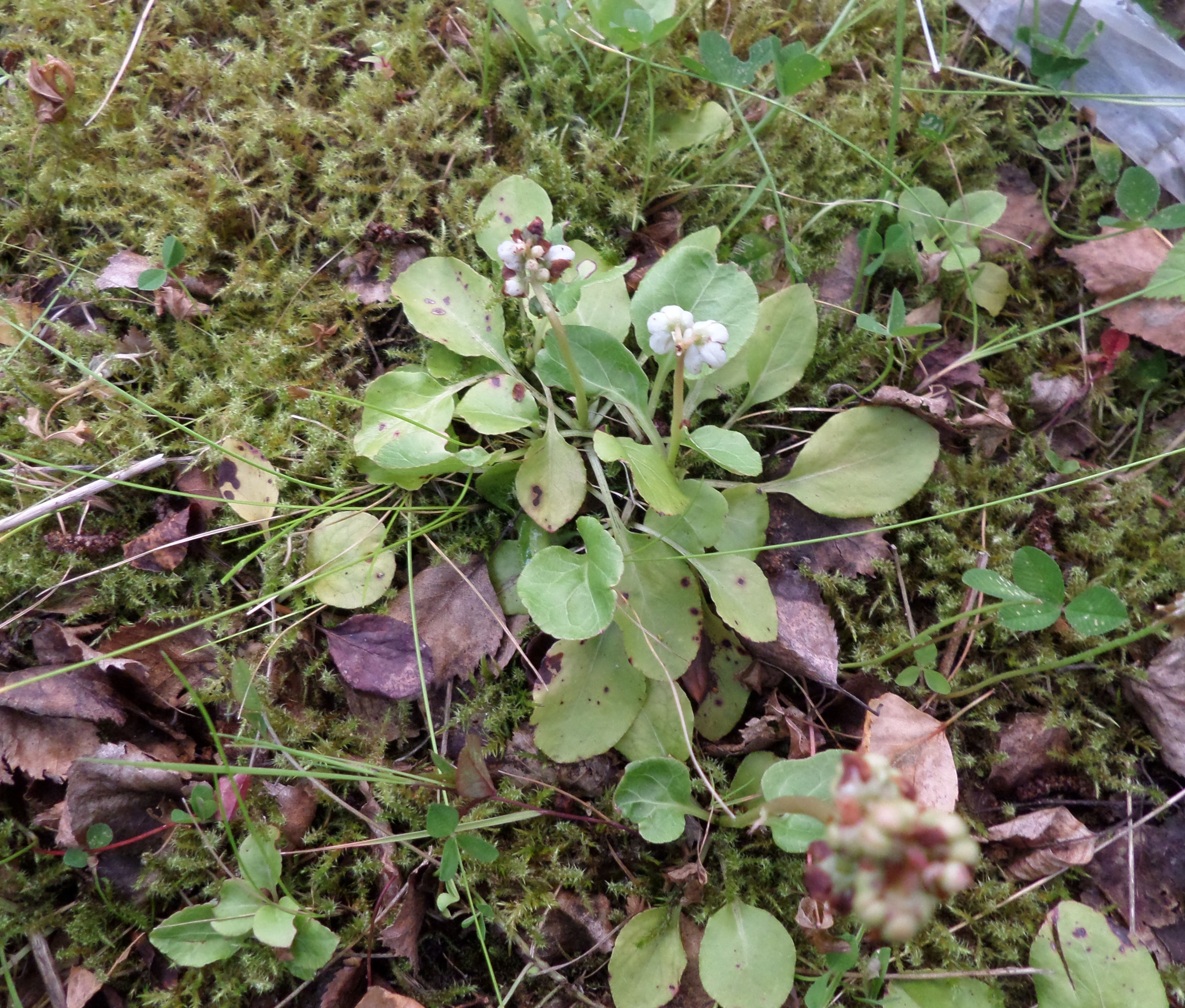 Common Wintergreen (Pyrola minor) at Govan Docks, River Clyde, Glasgow, Scotland.